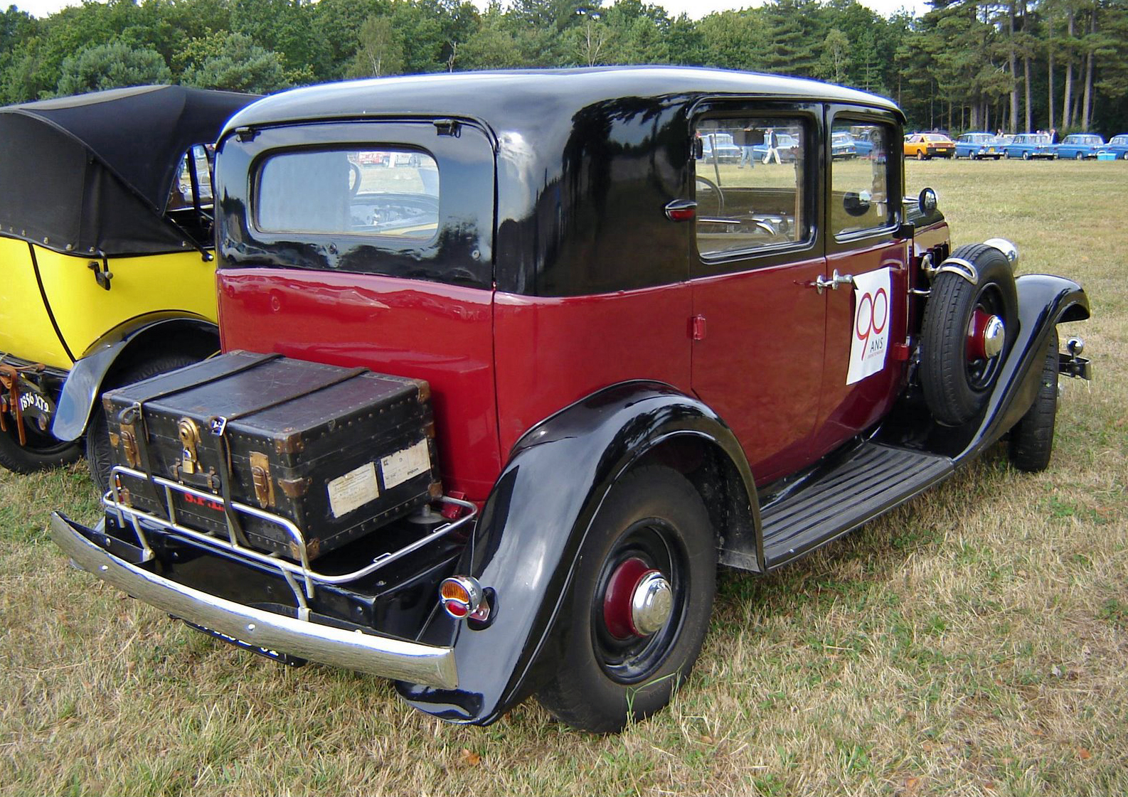 1936 Citroën Rosalie 7UA MI (with the 7C Traction Avant's 1,628cc OHV engine) at the Autodrome de Linas-Montlhéry, 2009.